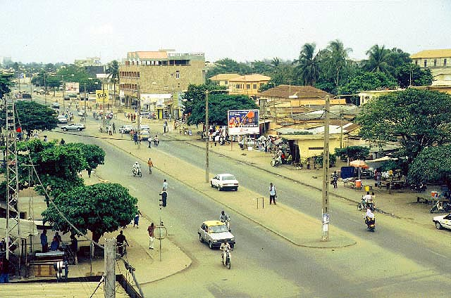 Photograph of Boulevard 13. Taken in January, Lomé. Photograph of Grand Market. Taken in January, Lomé.